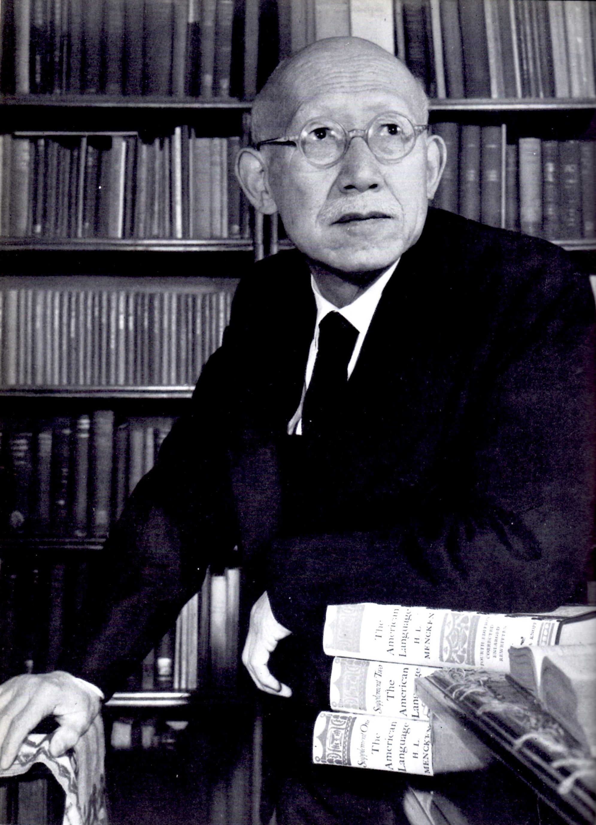 Japanese scholar of English and essayist, Ichikawa Sanki (1886-1970)